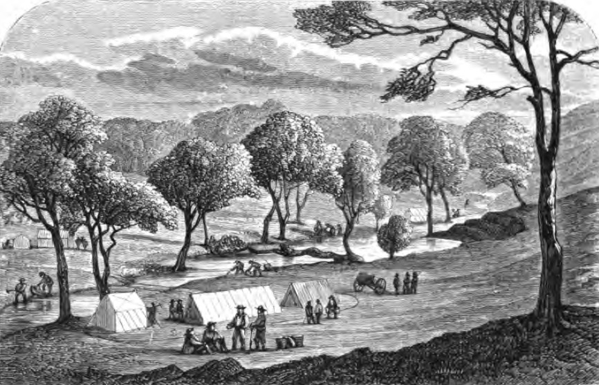 Sketch of the Victoria Gold Rush from George Henry Wathen's 1855 book on the "Golden Colony" - View on Campbell's Creek, Mount Alexander. Washing out the gold.